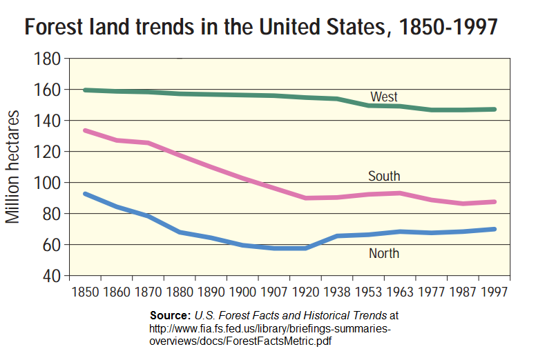 This graph depicts the trends of forest cover by region in the United States. It's a part of the report 'U.S. Forest Facts and Historical Trends' that was created by the U.S. Department of Agriculture and can be accessed here. A raw version of this graph, without a source credited in the image, is available here.